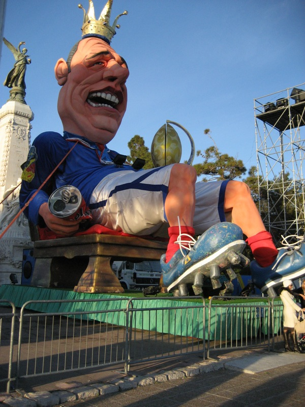 The king of Nice Carnival in 2007.